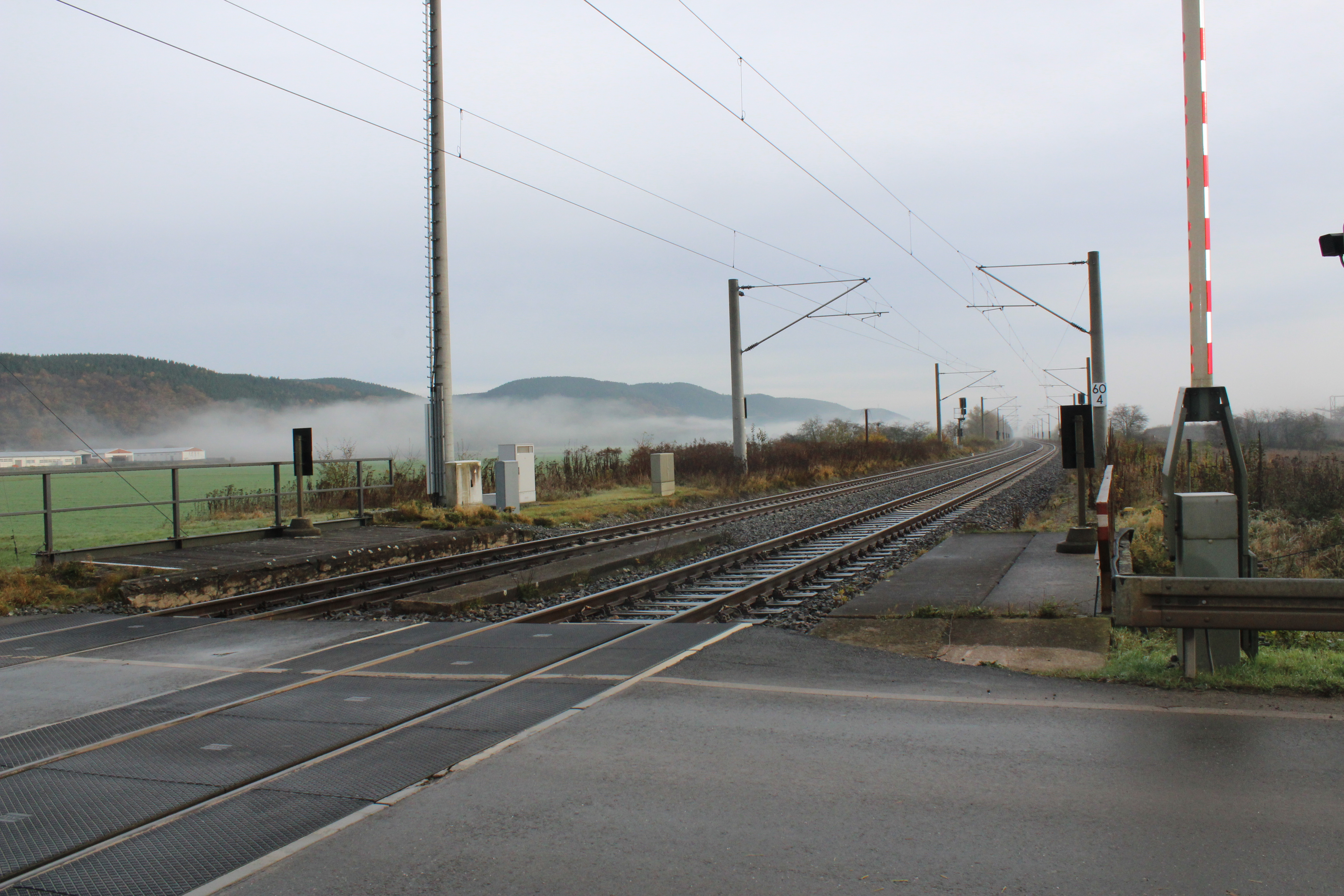 former train station Kirchhasel